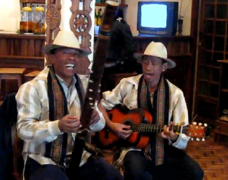 Musicians from Madagascar playing valiha and guitar. Lemurbaby (talk) 08:39, 6 November 2010 (UTC)